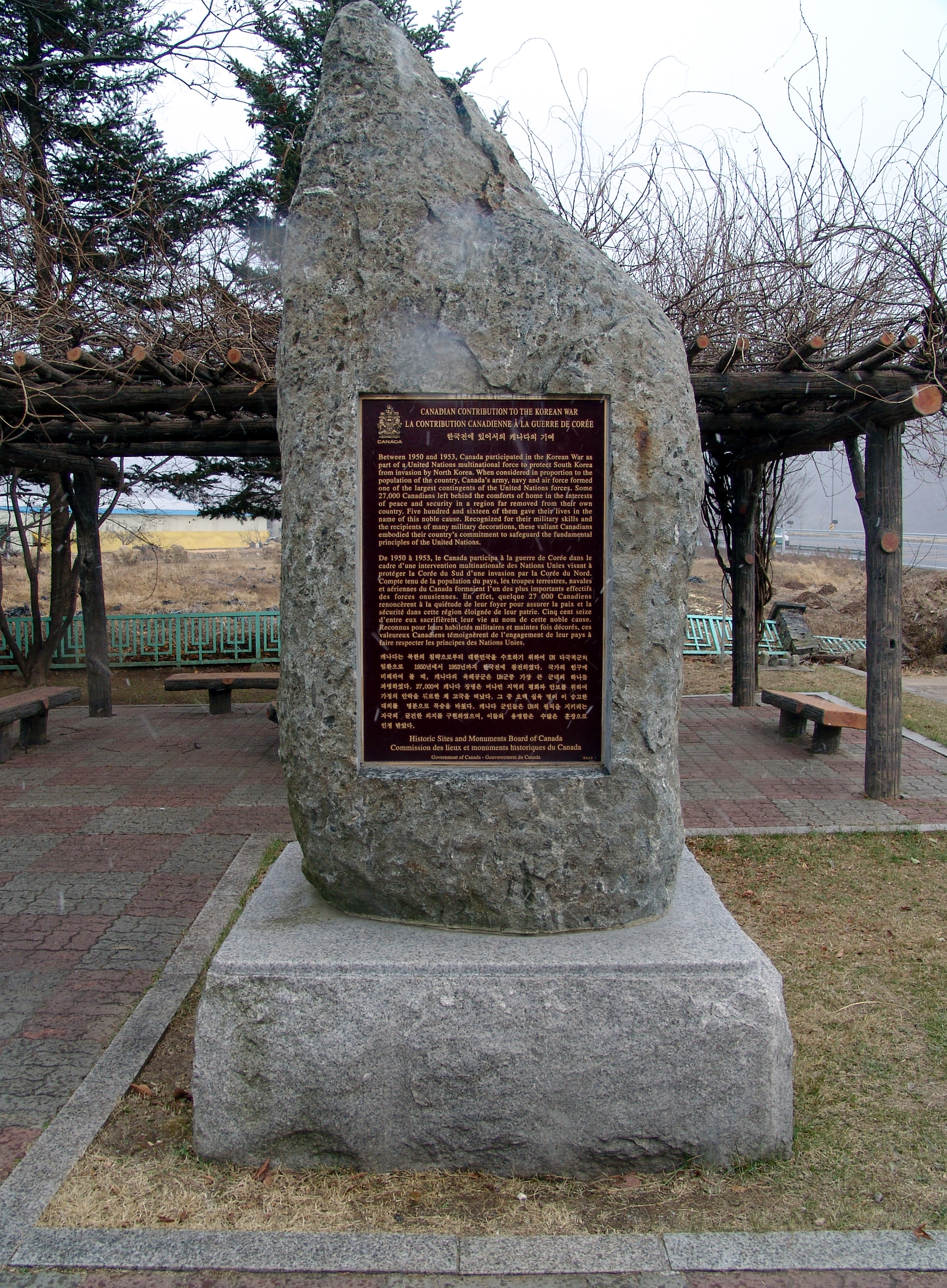 The monument to the Canadian contribution during the Korean War at the Gapyeong Canada Monument. I took the picture.